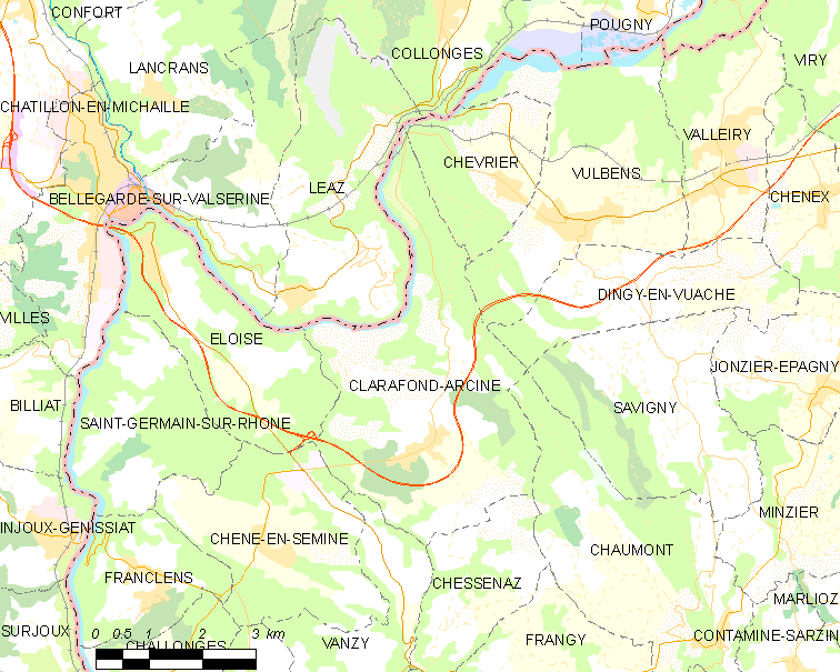 Map of French municipality Clarafond-Arcine